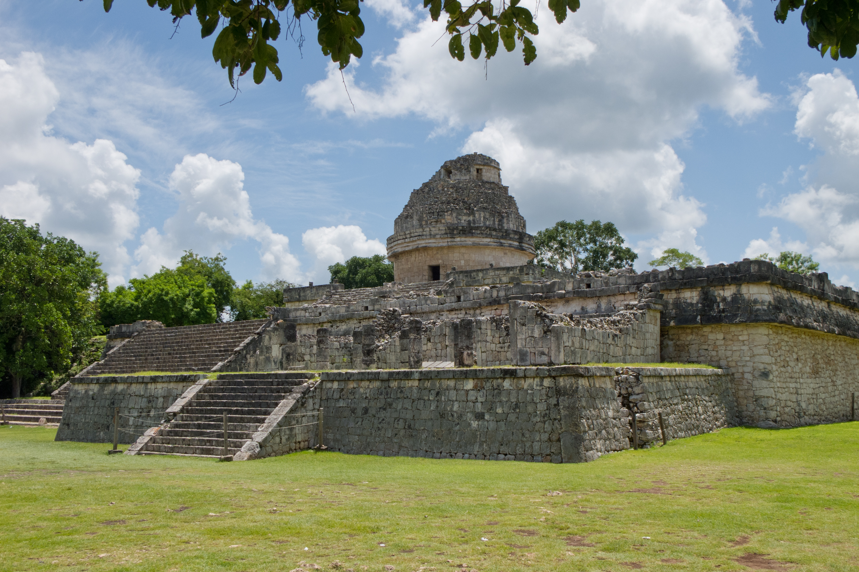 Chichen Itza, Yucatan, Mexico.